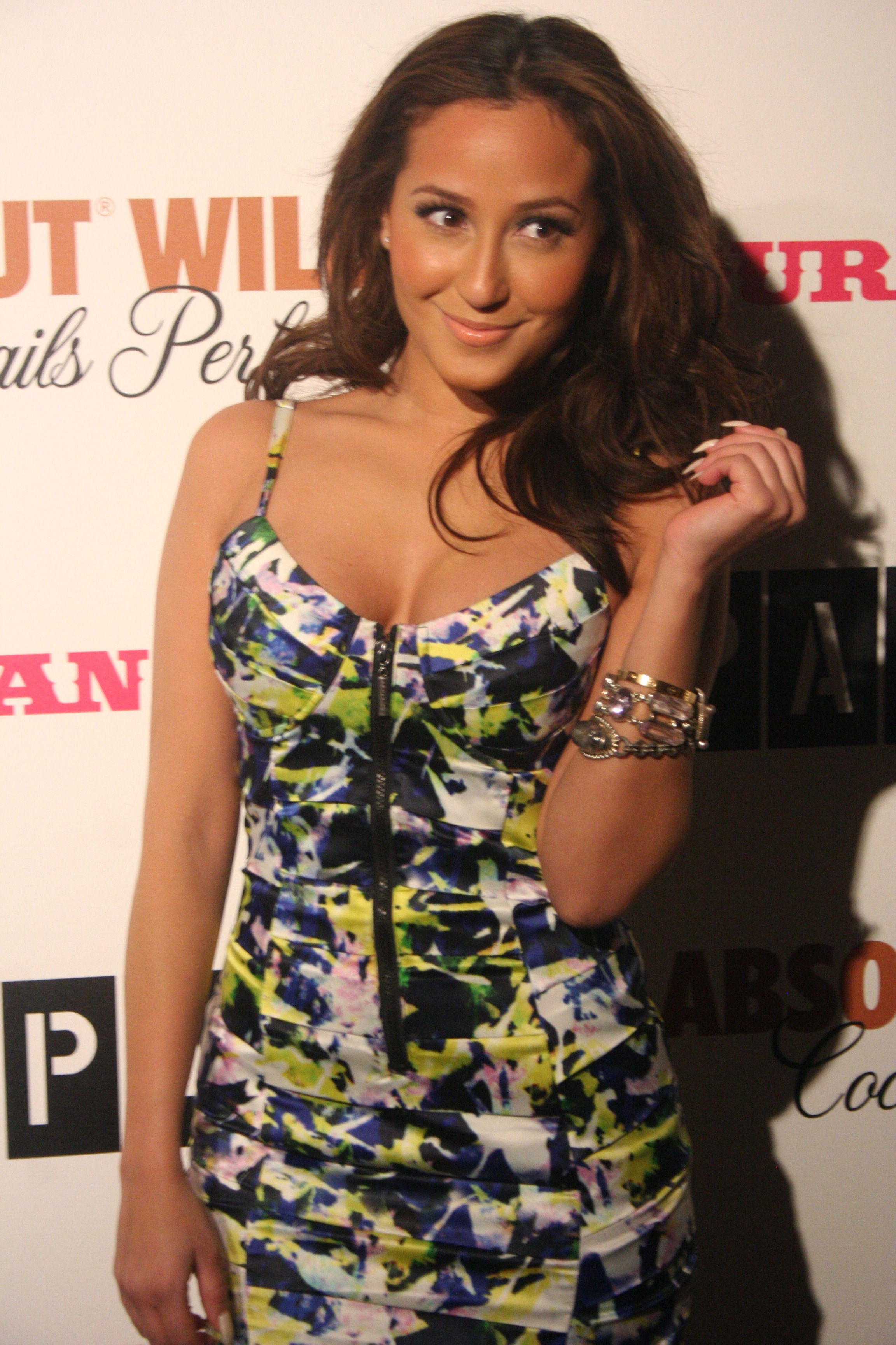 Paper Magazine Beautiful People Party Absolut Wild Tea And Paper Party Good Units at Hudson, New York City March 30th 2011